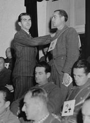 Michael Pellis, a former inmate at Dachau, identifies former SS-Obersturmfuehrer Friedrich Wilhelm Ruppert as the man responsible for selecting people to die in the crematorium, at the trial of former camp personnel and prisoners from Dachau.